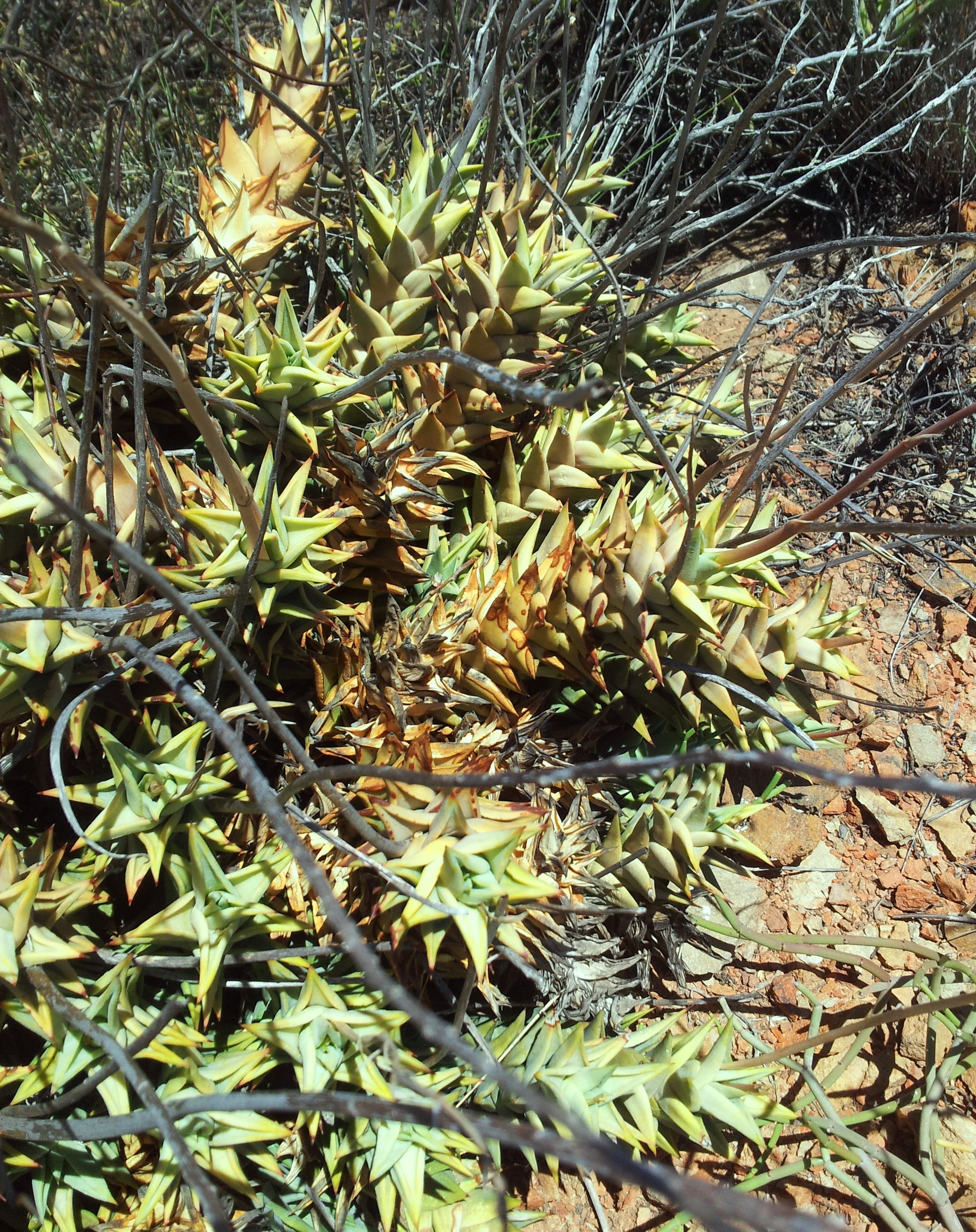 Astroloba rubriflora - poellnitzia showing effects of full sun - north McGregor South Africa